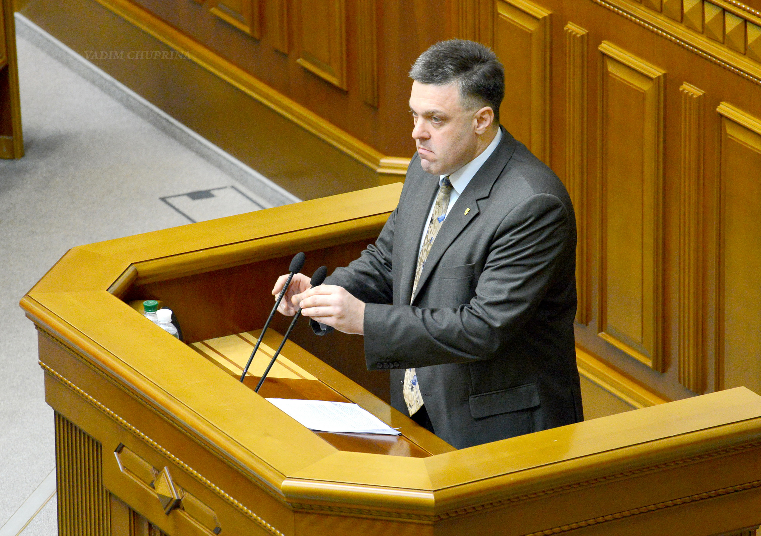 Ukrainian politicians VADIM CHUPRINA